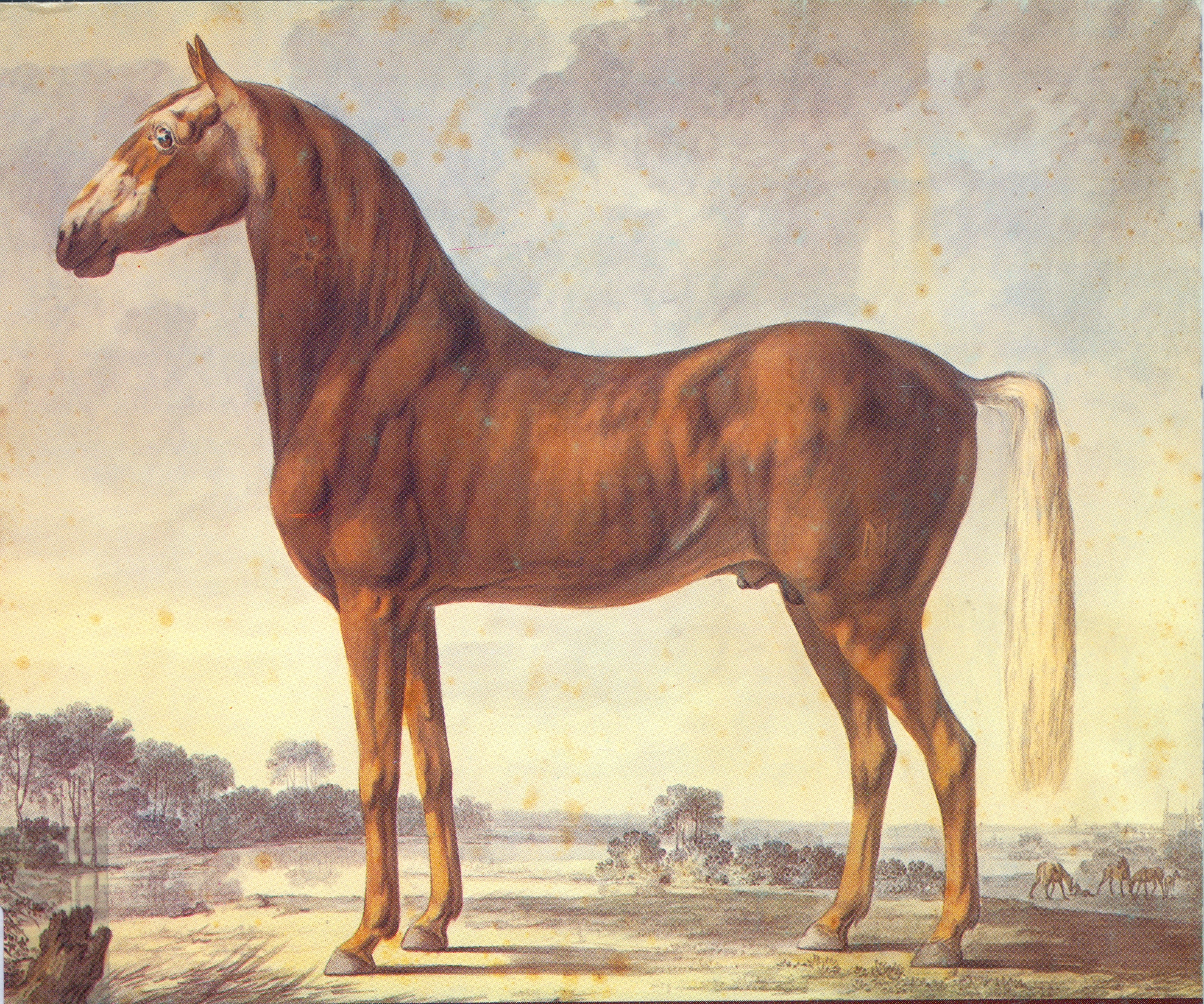 Colored drawing, 45,5 x 56,7 cm, ca. 1830, Veterinary and Agricultural Library of Denmark, Copenhagen The stallion “Beaver ” was born in 1821. It is a chestnut with unusual white markings. The tail is white (not the manes) and the head has white markings. There also is a vague white stripe on the groins. In fact this horse is a skewbald. The Beaver has a ram-nose as often occurred in this breed. On the left side of the neck the brand of the Frederiksborg stud is visible (a crowned star). Frederiksborg was a royal stud in Denmark which florished especially in the 17th and 18th century. Spanish and Lipizzan horses had much influence on their development, but the standard color was chestnut. King Christian IV was very active in creating a desirable horse for the royal coaches and dressage riding. By the time of The Beaver the stud was already in decline and was closed in 1839. In 1939 efforts were made to recreate the breed and a small number of Frederiksborg horses exist again.